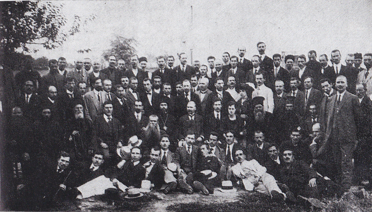 Bulgarian revolutionaries from Odrin region